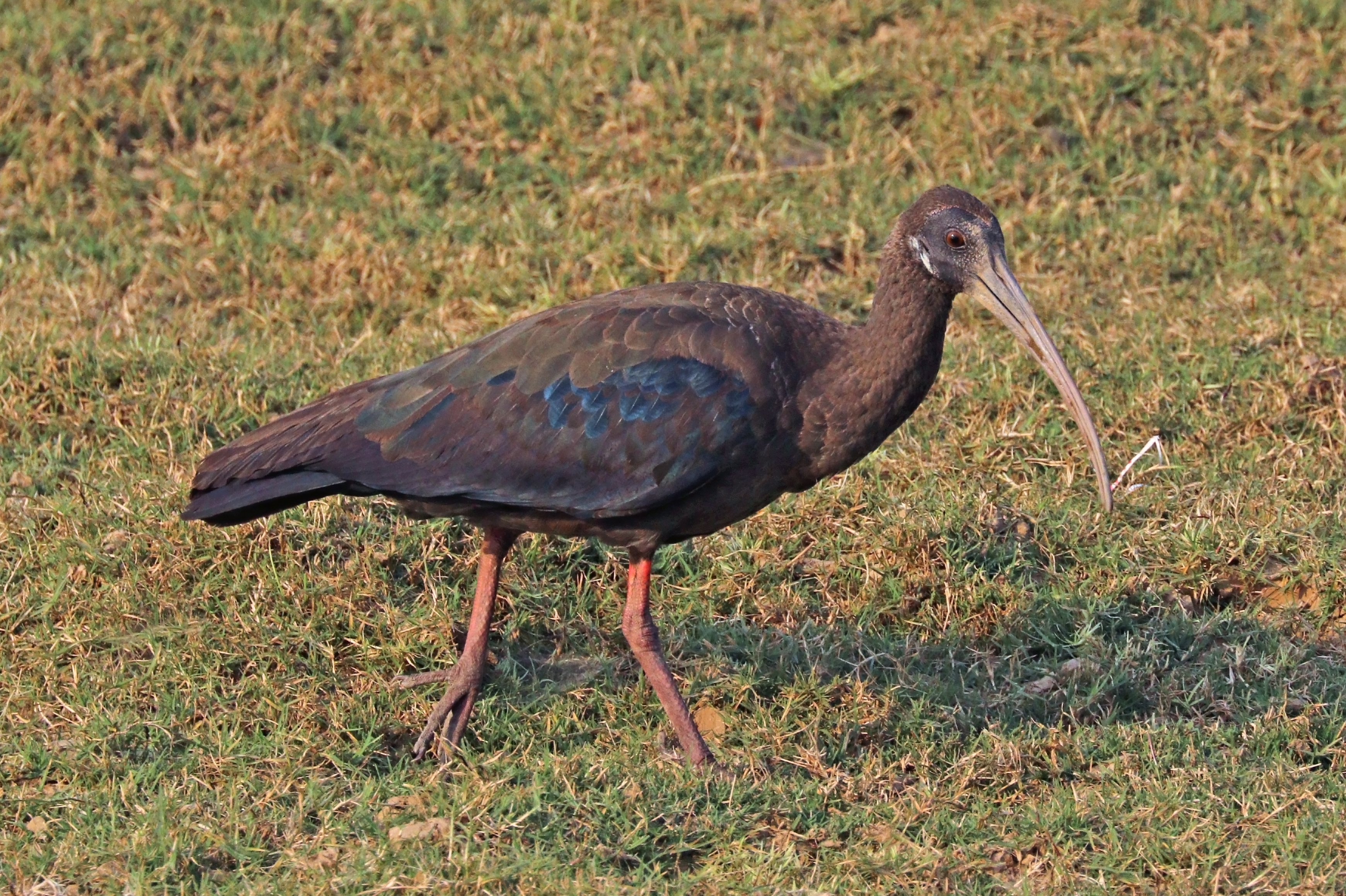 Red-naped ibis (Pseudibis papillosa) immature, Chambal River, UP, India